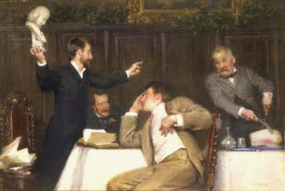 "Shakespeare or Bacon", Watercolour on paper, 35.50cm x 25.50cm